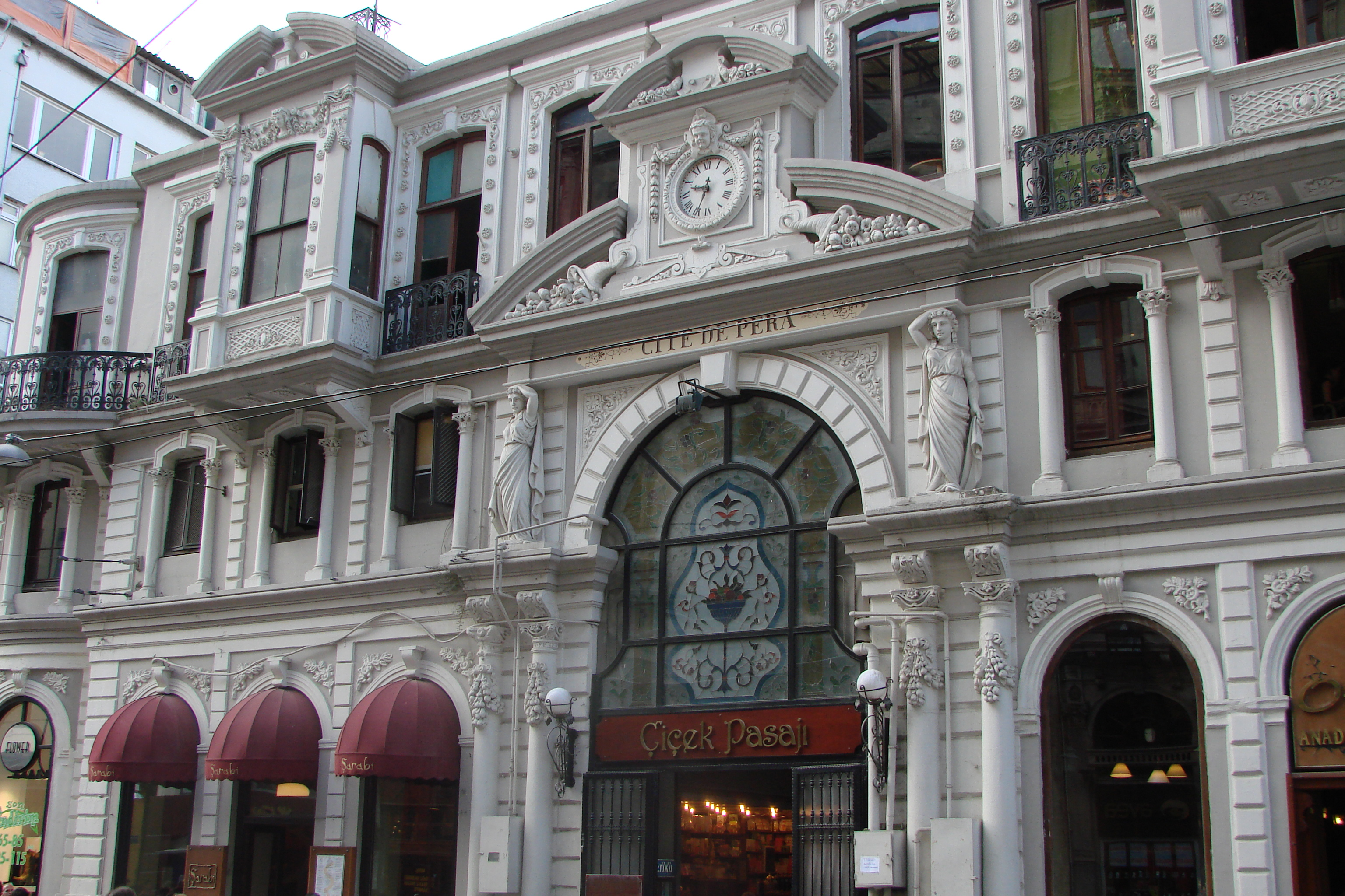 Picture taken by myself of Çiçek Pasajı (Cité de Pera) on Istiklal Avenue in Istanbul